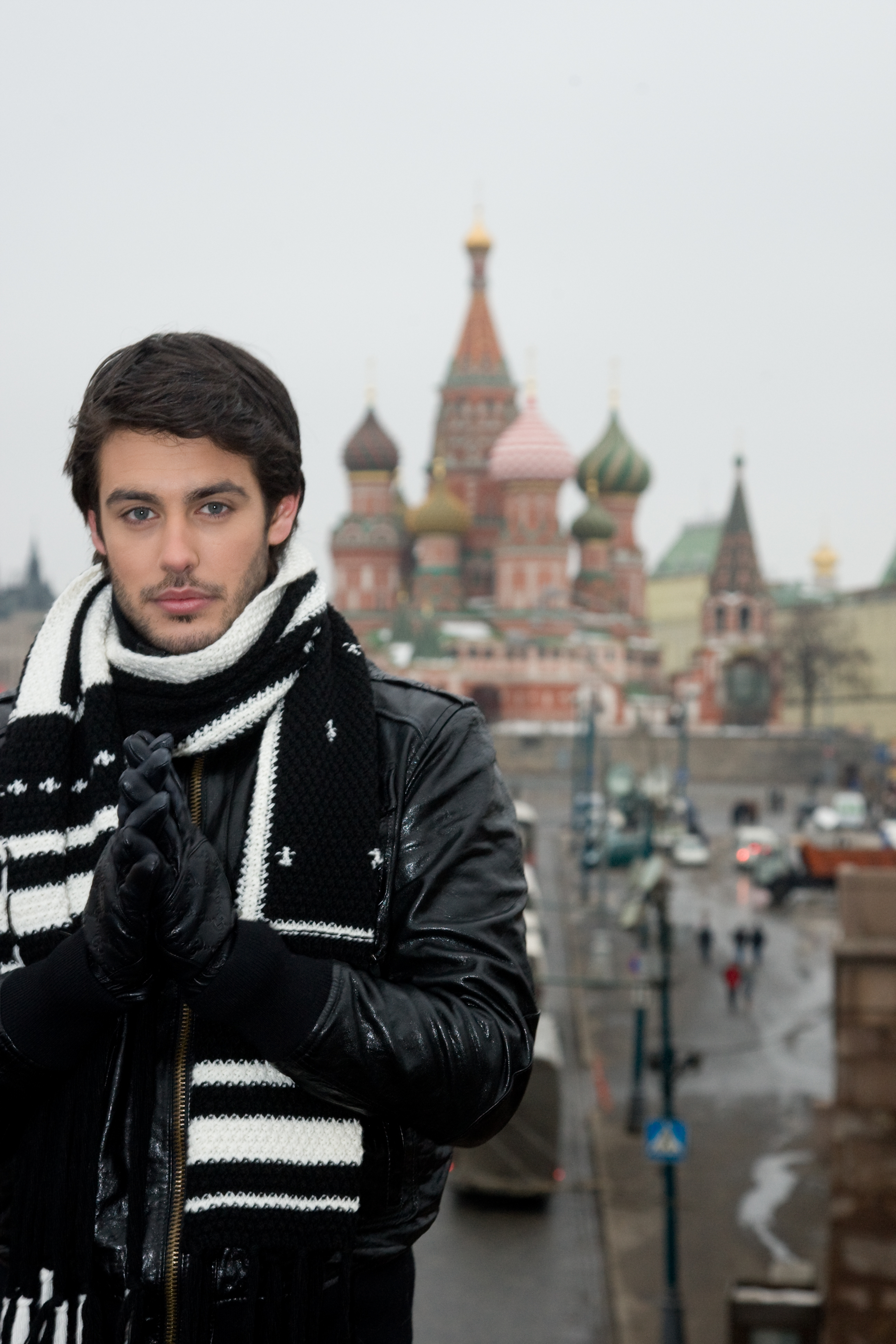 Kostas Martakis in Moscow, during the shooting of "Onira Megala" music video.